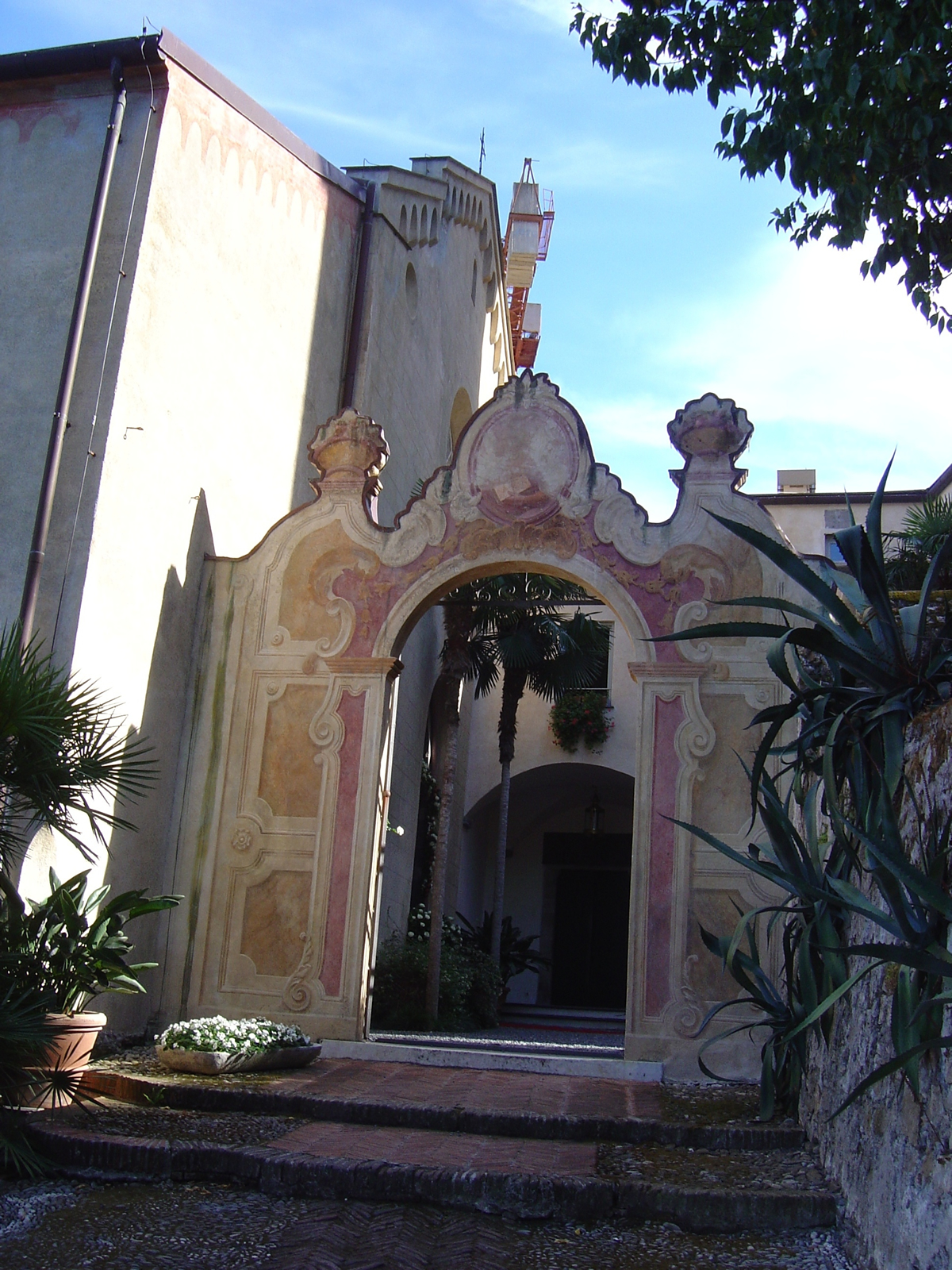 The Abbey of Cervara (Italian: Abbazia della Cervara or Abbazia di San Gerolamo) is a former abbey in the territory of Santa Margherita Ligure, Liguria, northern Italy